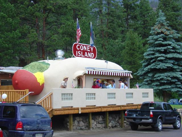 Re-opening of the "Coney Island Hot Dog Stand" on July 4, 2007 in Bailey, Colorado. Source author: John Perry, I took this picture at the re-opening, July 4, 2007 for use on the Coney Island Hot Dog Stand Wiki site with the grand re-opening.